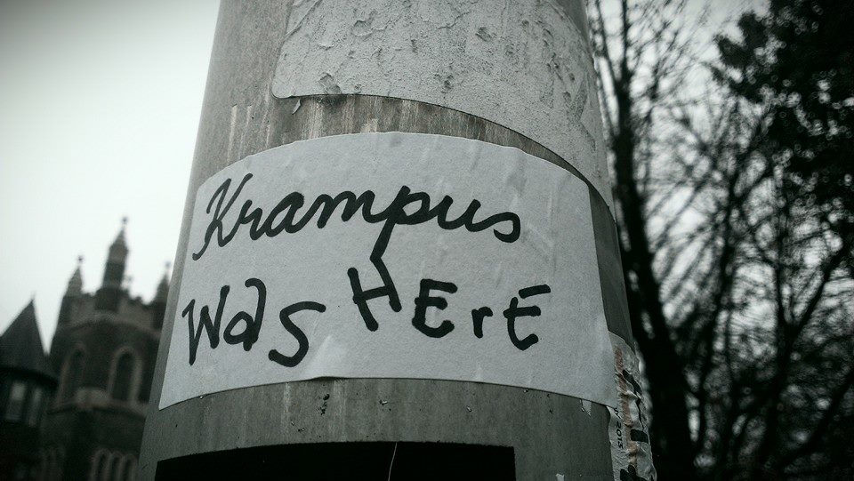 University City, Philadelphia c. 2014 | Lulu Höller